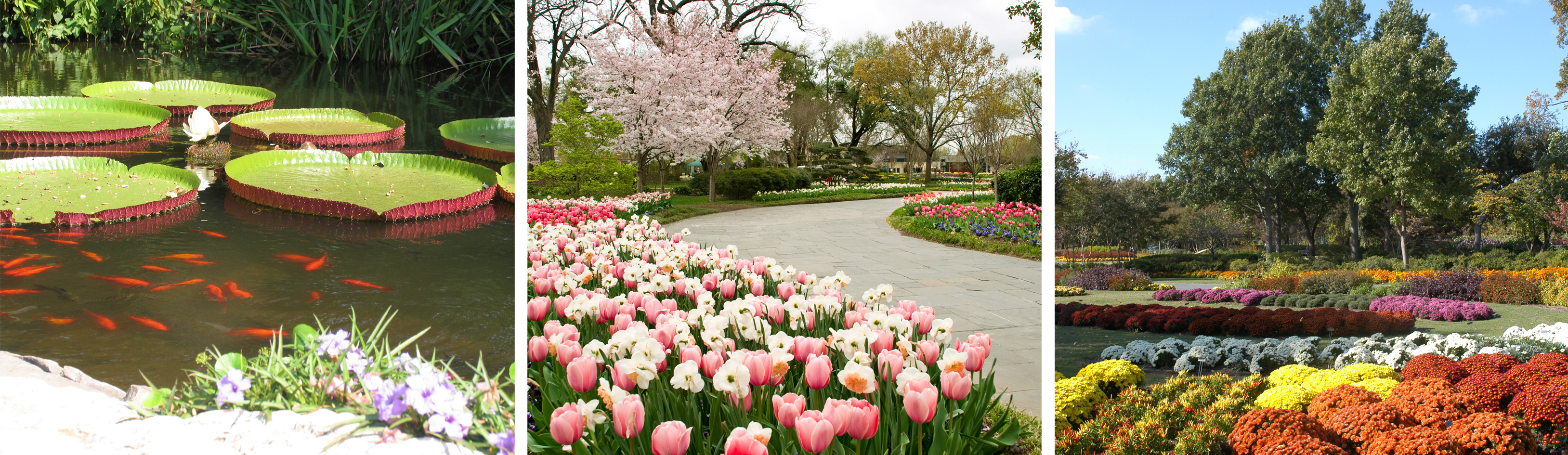 Seasonal images of the Dallas Arboretum